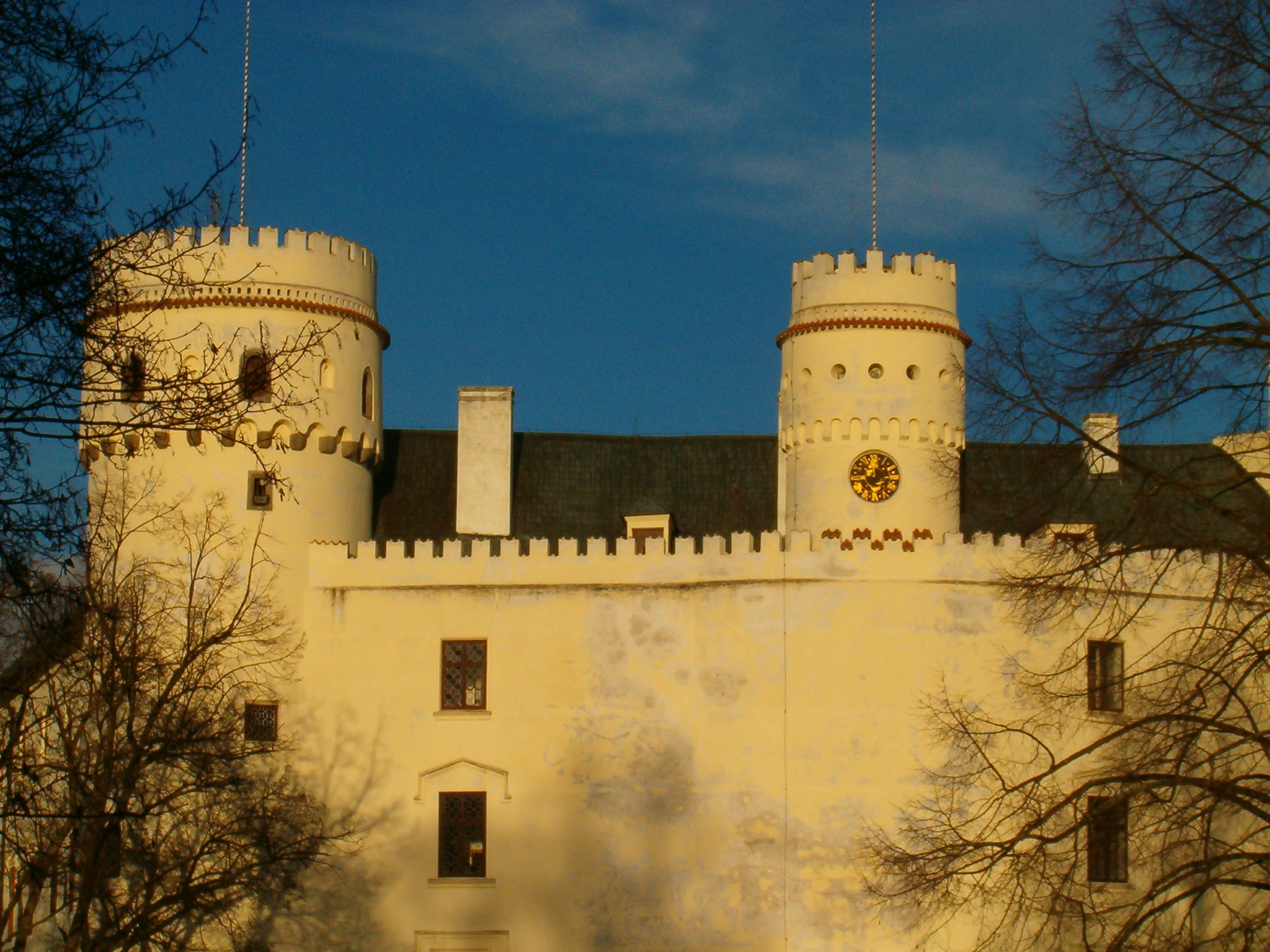 Orlík castle, 2007.